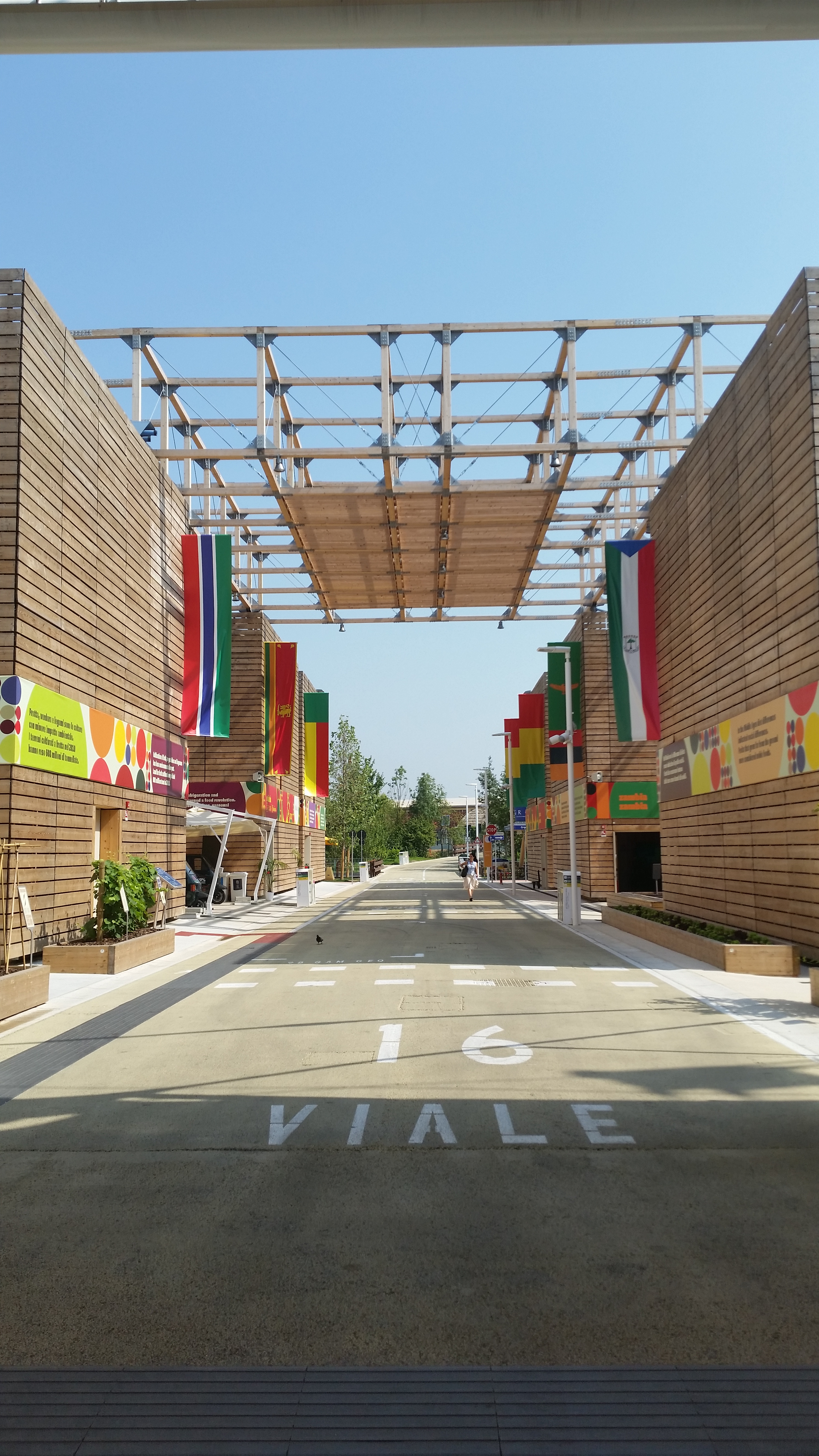 Pavilion of the Expo 2015 located in Milano (Italy)